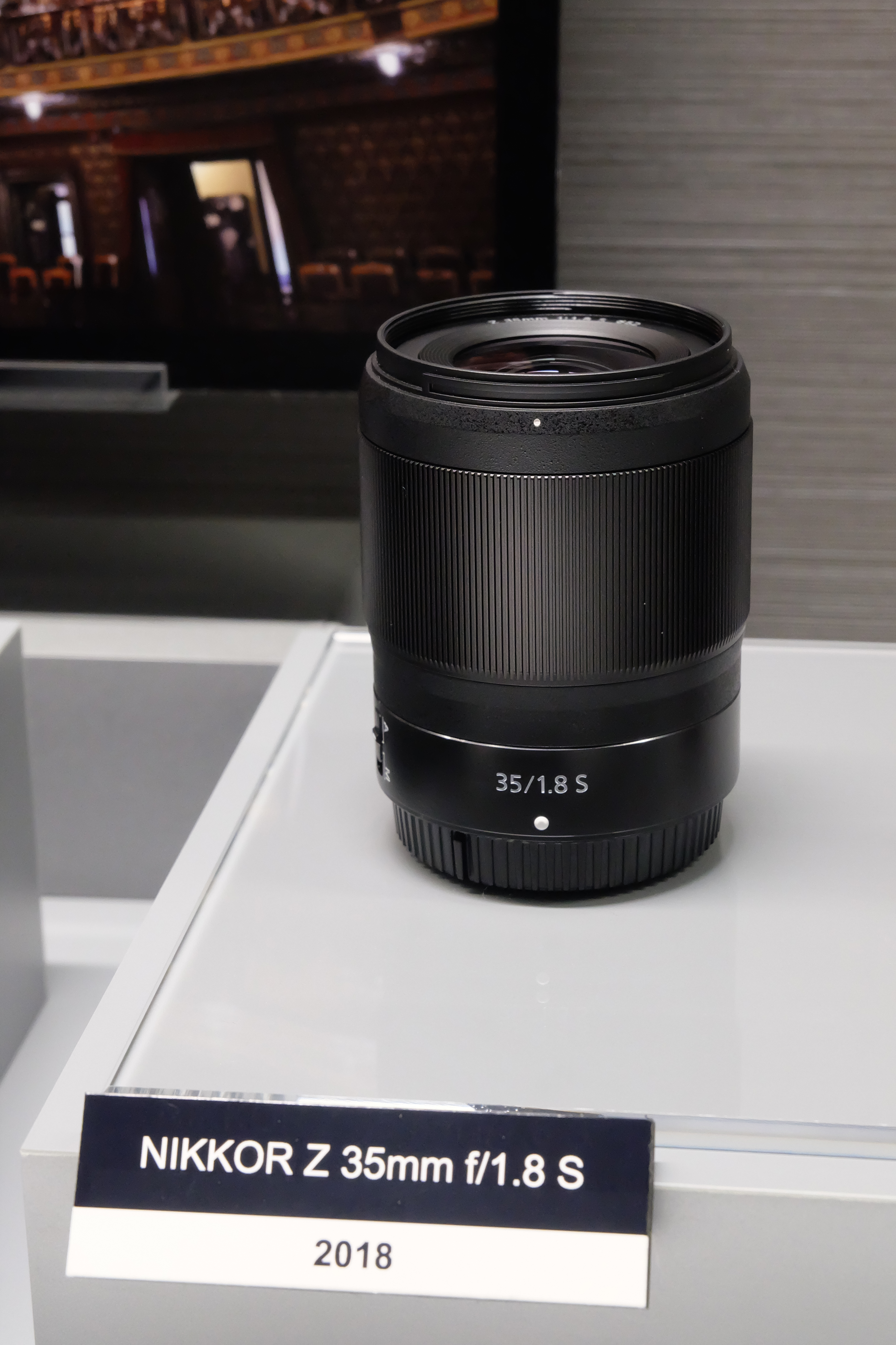 Nikon Z-mount lens NIKKOR Z 35mm f/1.8 S, photo taken at Nikon Museum